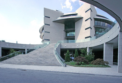 This headquarters campus is divided into nine three-story buildings. Courtyards with landscaped connections facilitate communication between buildings and provide access to dining and the grand plaza, where the executive office building is located.